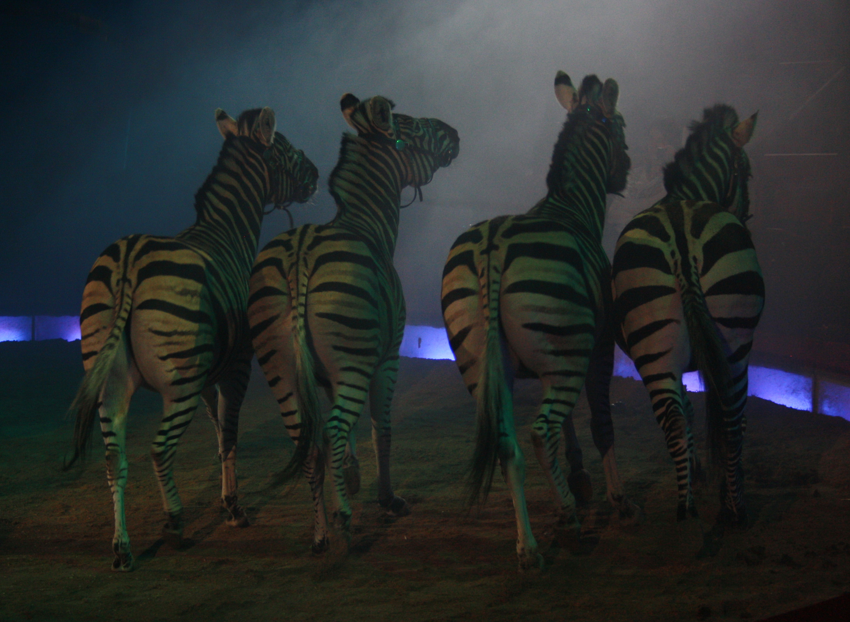 Zebras at the circus